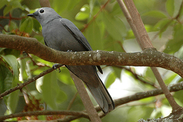 Uganda Grey Cuckoo-shrike (Coracina caesia)